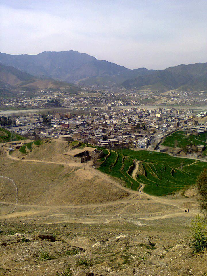 timergara from Mandal abad